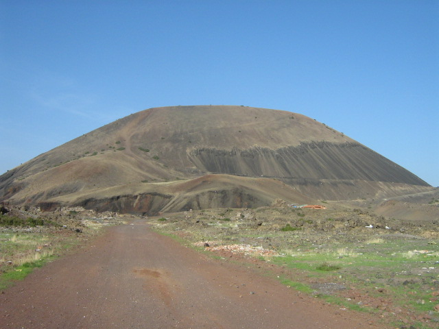 Kula, Manisa, Turkey